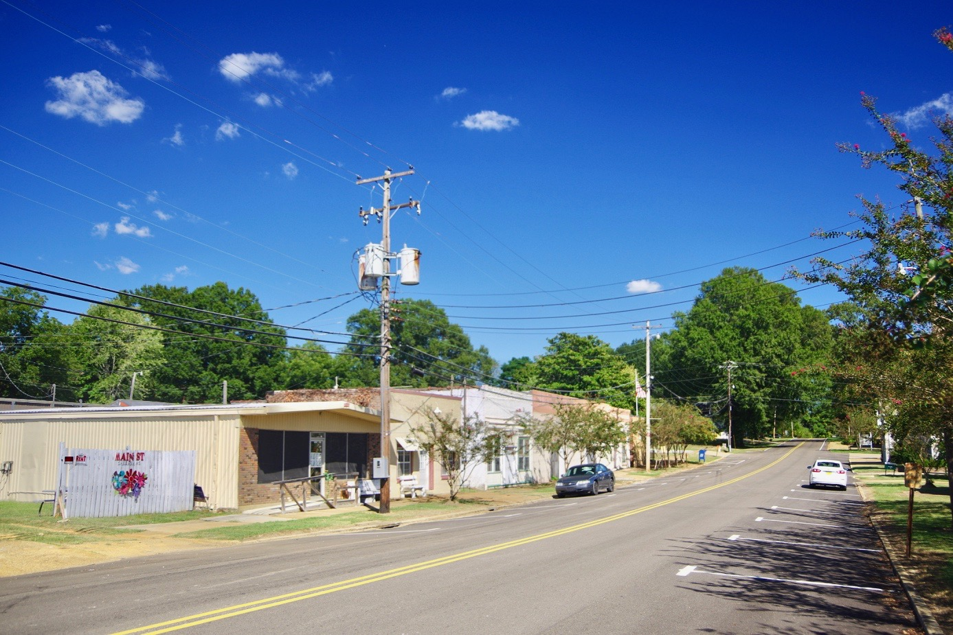 Buildings along Main Street in Sherman, Mississippi, United States.